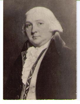 Painting portrait of General William Shepard, 4th Massachusetts militia